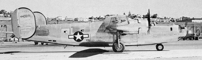 Consolidated B-24J-145-CO Liberator 44-40071 492 BG 857 BS Transferred to 44th BG, 66th BS